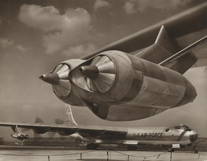 Title: B-36 engines, B-36 plane